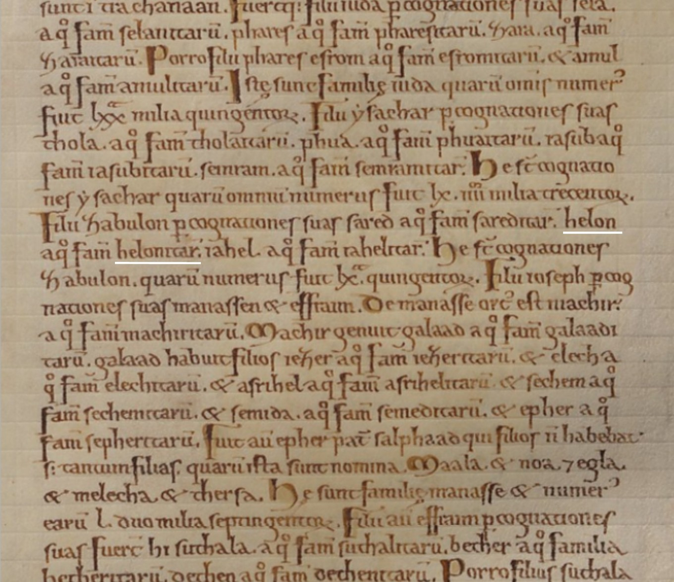 Fragment from Codex Gigas (the Giant Book, or Devil's Bible); circa 13th century - approximately 300 years before the King James Bible; Old Testament, Numbers 26:26; enumerating the children of Zebulon.